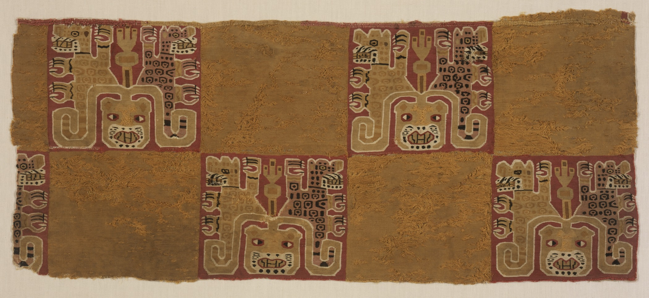 Peru, South Coast, Wari, 600-850 Textiles; panels Camelid fiber and cotton; interlocked tapestry weave Costume Council Fund (M.72.68.8) Costume and Textiles